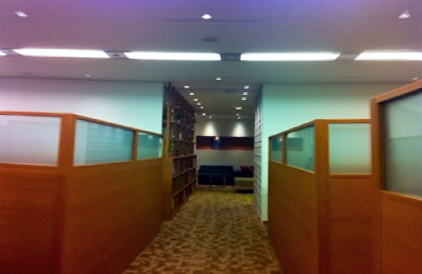 Last year I had the chance to walk around the Gaba Ikebukuro branch. This is a shot from inside the teaching booth area pointed towards the reception area.